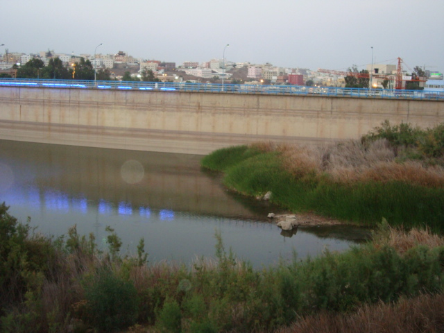 Dam rainfall in the city of Abha